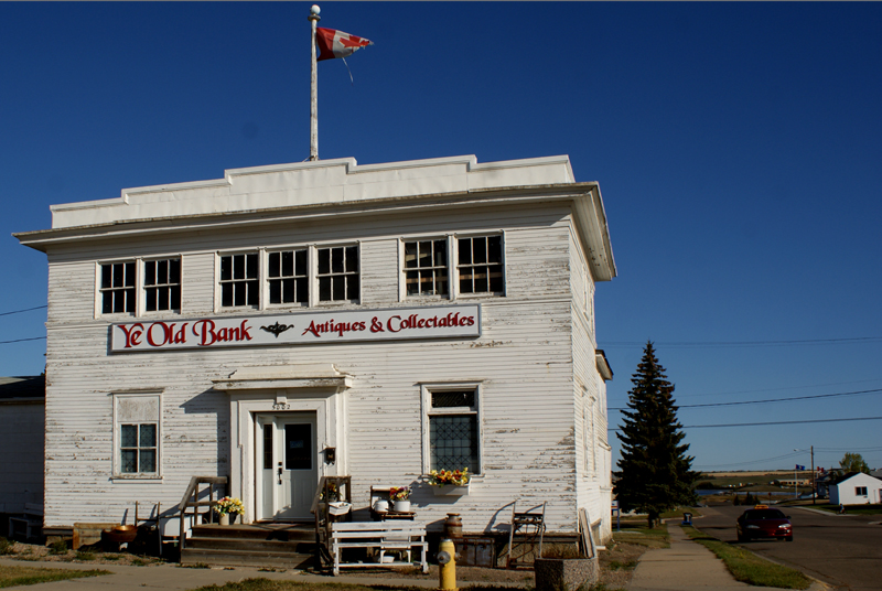 Kitscoty, Alberta